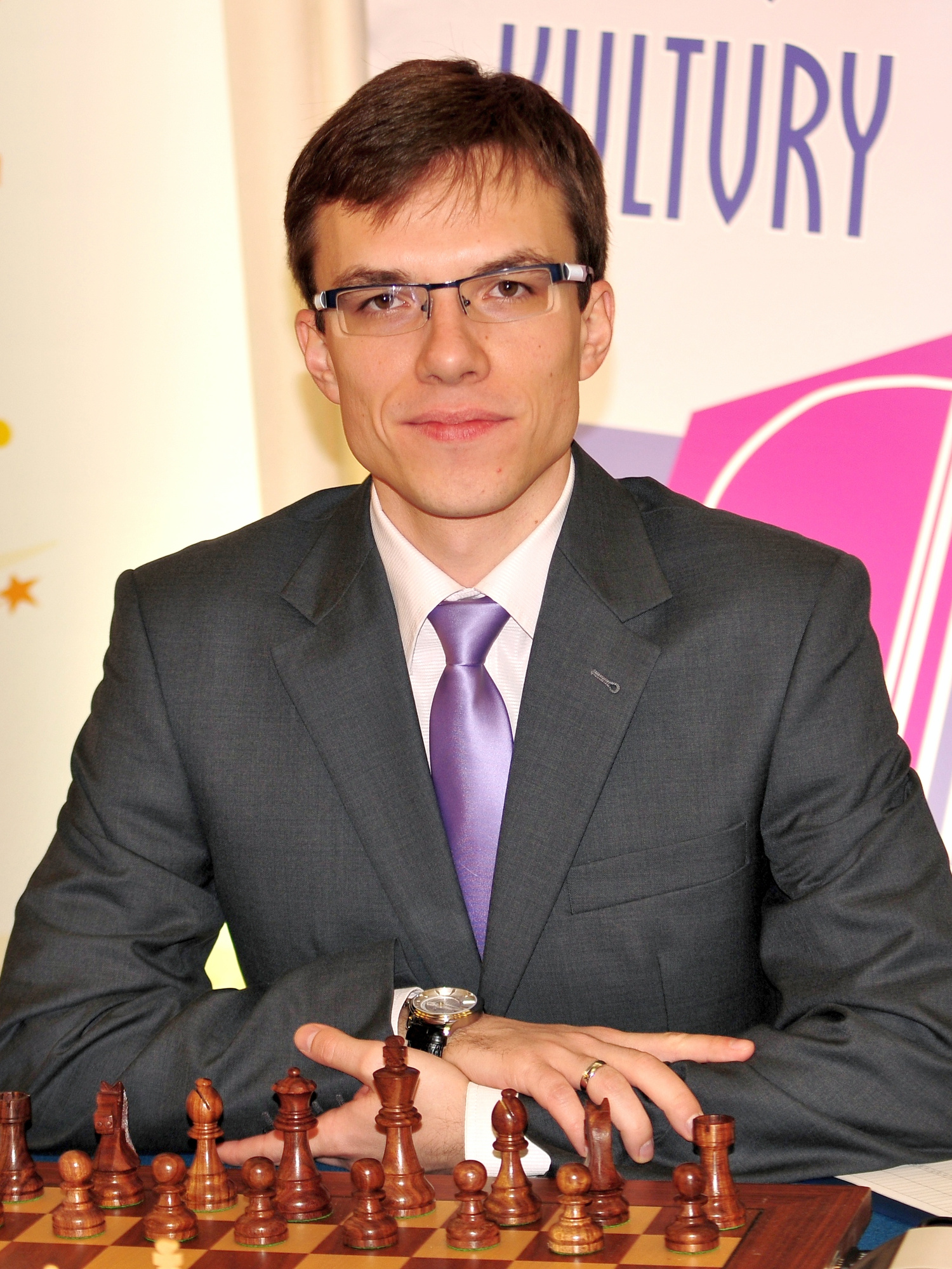 GM Mateusz Bartel, European Chess Team Championship Warsaw 2013